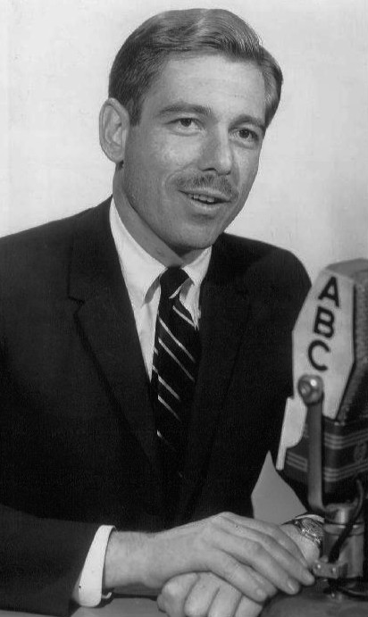 Photo of Sam Jaffe as a young man . I do not know whether he was an ABC broadcaster at one time or not, since there's nothing in his en.WP biography to indicate that. He may have been at ABC in an radio acting role. The photo was issued when he was in the television program Ben Casey.